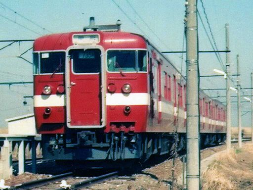 Central Japan Railway Company 115 series EMU in Minobu Line Original colour, at Kajikazawaguchi Station